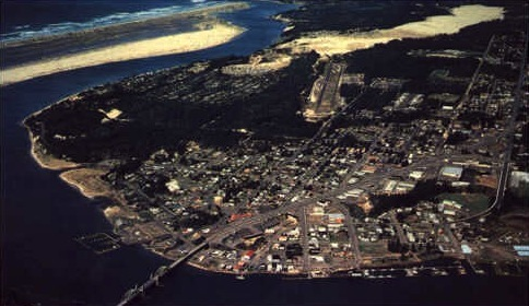 photo of Florence, Oregon Licensed for use in accordance with the GFDL.